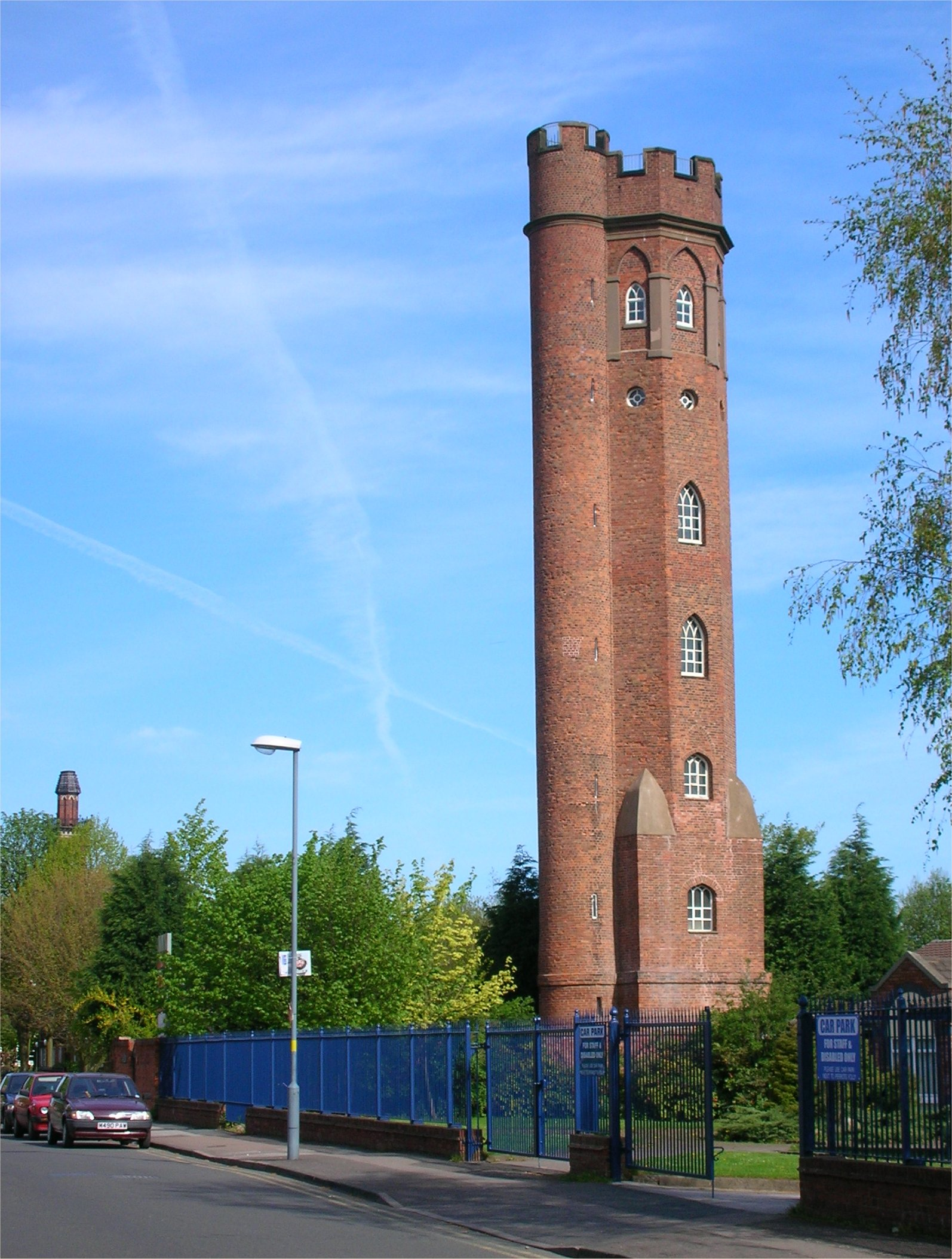 Perrott's Folly, Edgbaston, Birmingham, UK, photographed 6th May 2006 at 0945. The tip of the Edgbaston Water Works tower is just visible on the left (Tolkien - The Two Towers)